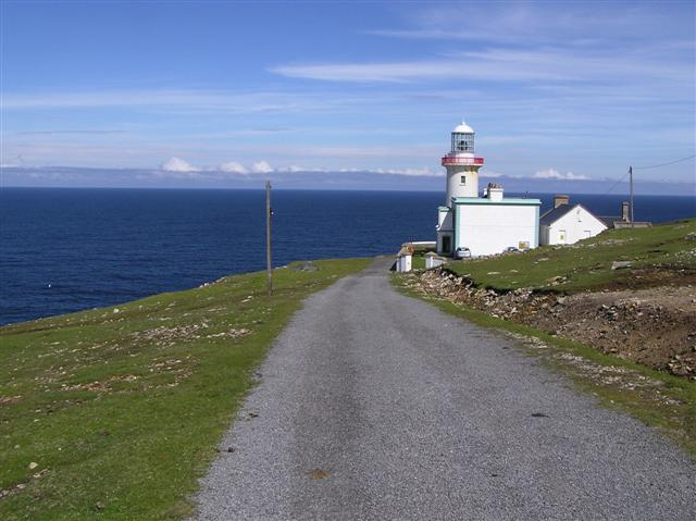 Aranmore Island The lighthouse is on the north end of the island